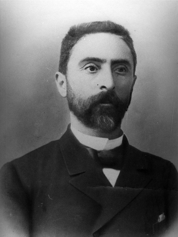 Hristodoulos Perdikaris